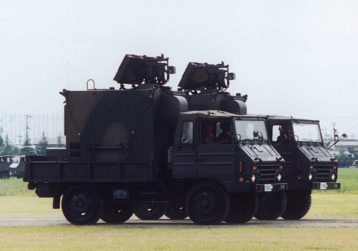 JGSDF JTPS-P11 rader in Sendai.Taken by Los688, at 01-Oct-2000.PD-self. ja:2000年10月1日撮影。陸上自衛隊 85式地上レーダーJTPS-P11。撮影地、霞目駐屯地。